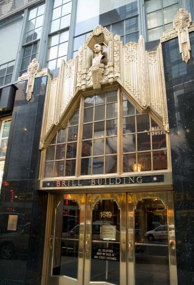 Slightly angled shot of the Brill Building, 1619 Broadway, New York.